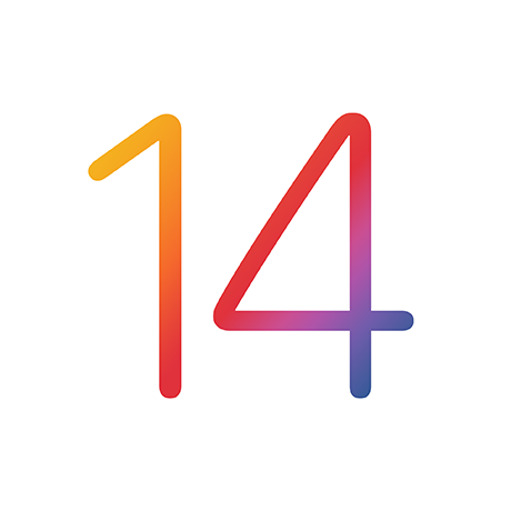 iOS 14 Logo